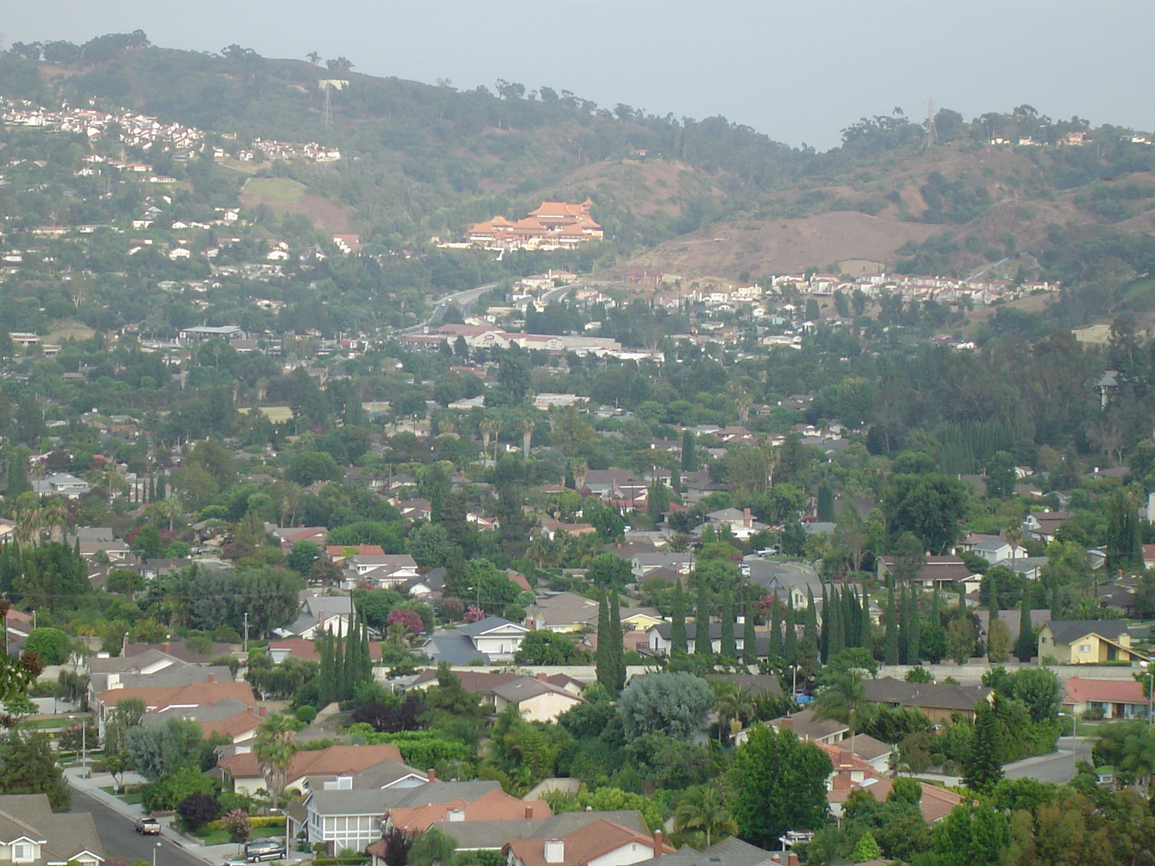 Buddhist Hsi Lai Temple — on a slope in the Puente Hills, in Hacienda Heights, California, Credits Photographed and uploaded by User:Geographe — on July 23, 2005.